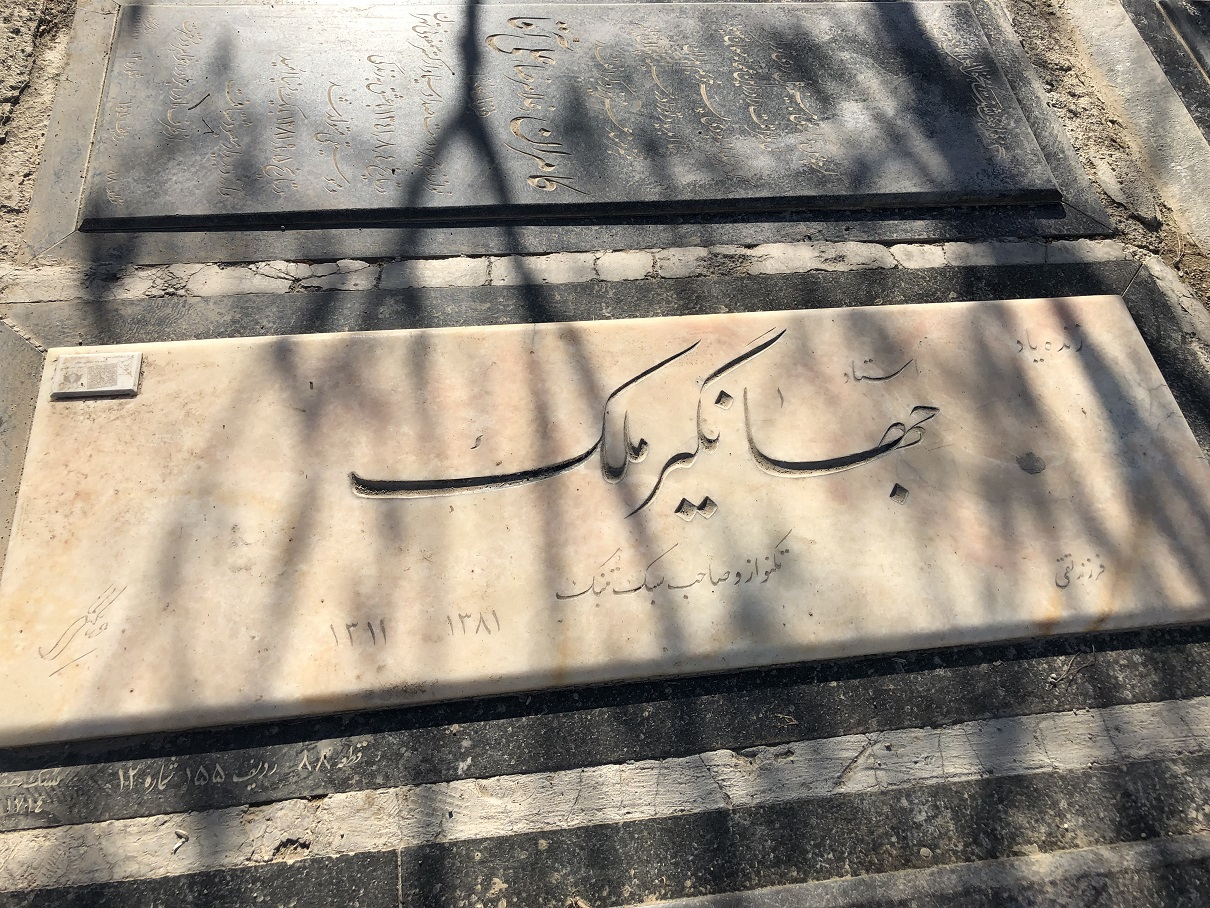 Beheshte Zahra Cemetery